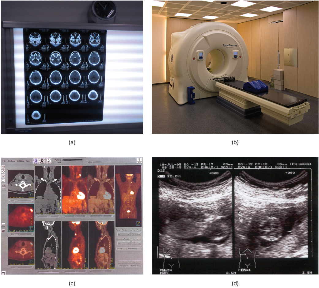 Caption: (a) The results of a CT scan of the head are shown as successive transverse sections. (b) An MRI machine generates a magnetic field around a patient. (c) PET scans use radiopharmaceuticals to create images of active blood flow and physiologic activity of the organ or organs being targeted. (d) Ultrasound technology is used to monitor pregnancies because it is the least invasive of imaging techniques and uses no electromagnetic radiation. (credit a: Akira Ohgaki/flickr; credit b: “Digital Cate”/flickr; credit c: “Raziel”/Wikimedia Commons; credit d: “Isis”/Wikimedia Commons) URL: Version 8.25 from the Textbook OpenStax Anatomy and Physiology Published May 18, 2016